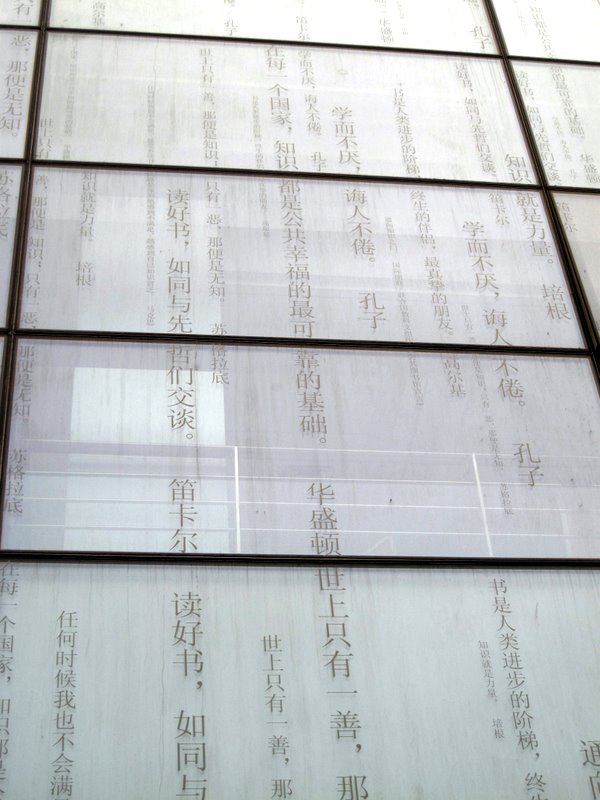 The wall of Chongqing Library,China. 中文（中国大陆）: 重庆图书馆外墙。